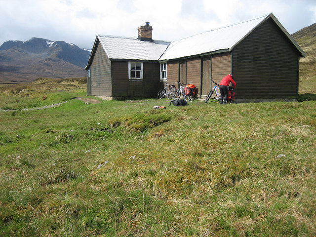 Culra Bothy Ben Alder beyond